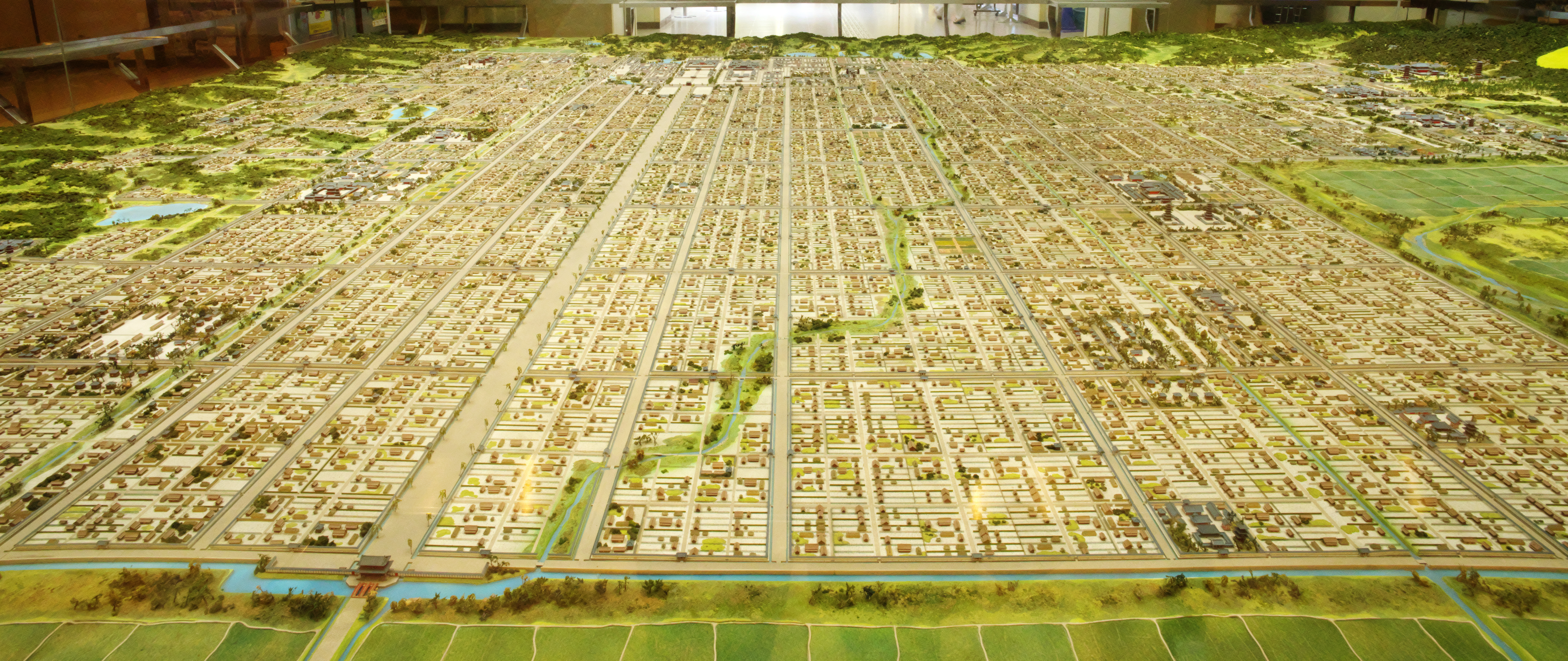 One-thousandth scale model of Heijo Kyo, held by Nara City Hall